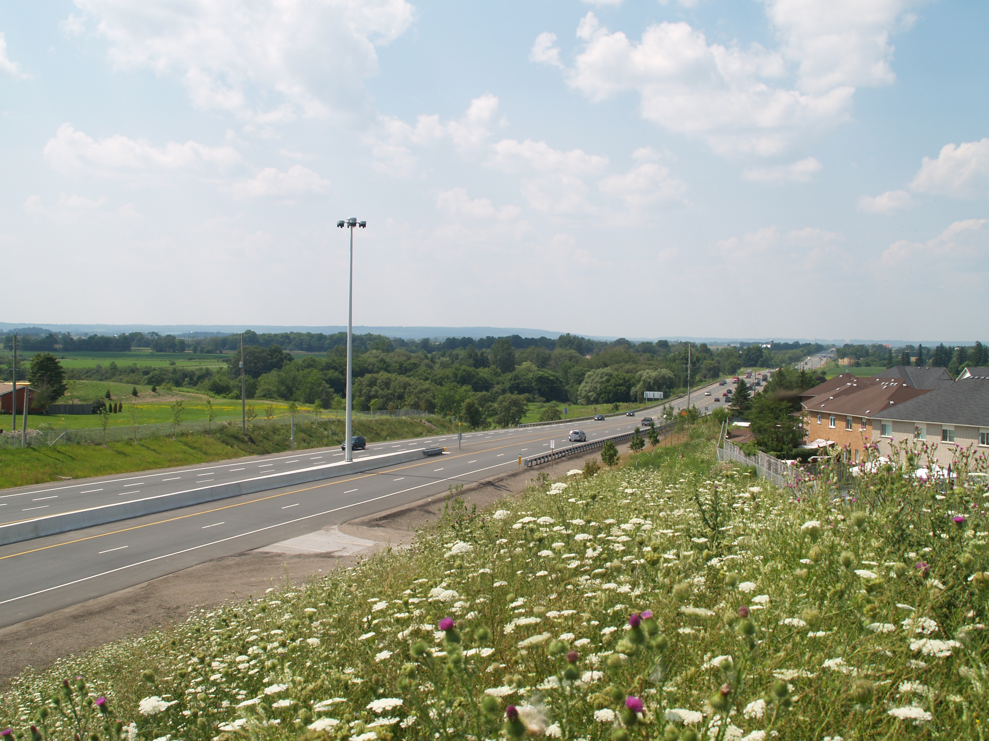 The northern terminus of Ontario Highway 410. From here it continues north as Highway 10. The Niagara Escarpment is visible in the background.